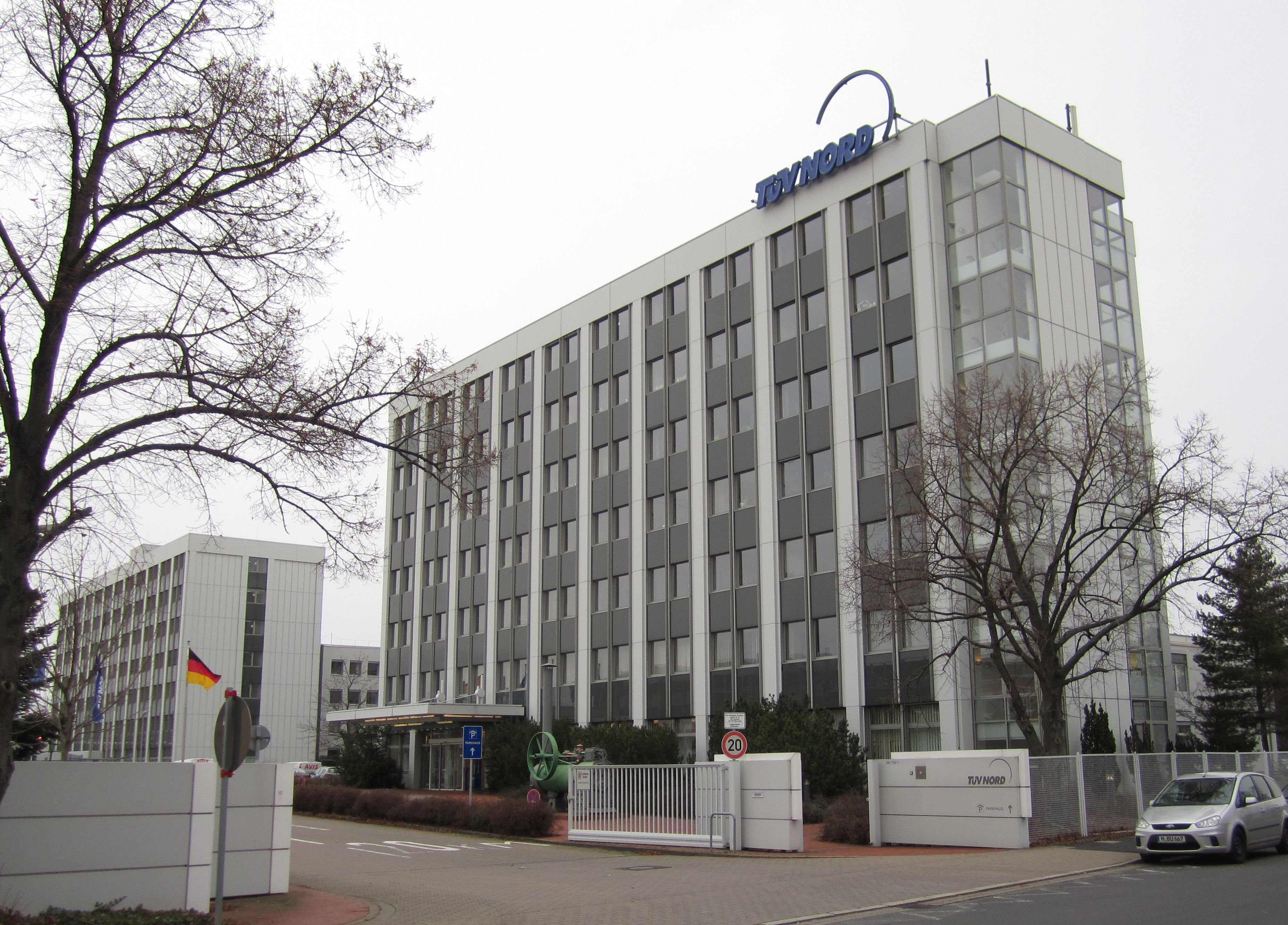 TÜV Nord main entrance, Hanover, Germany.